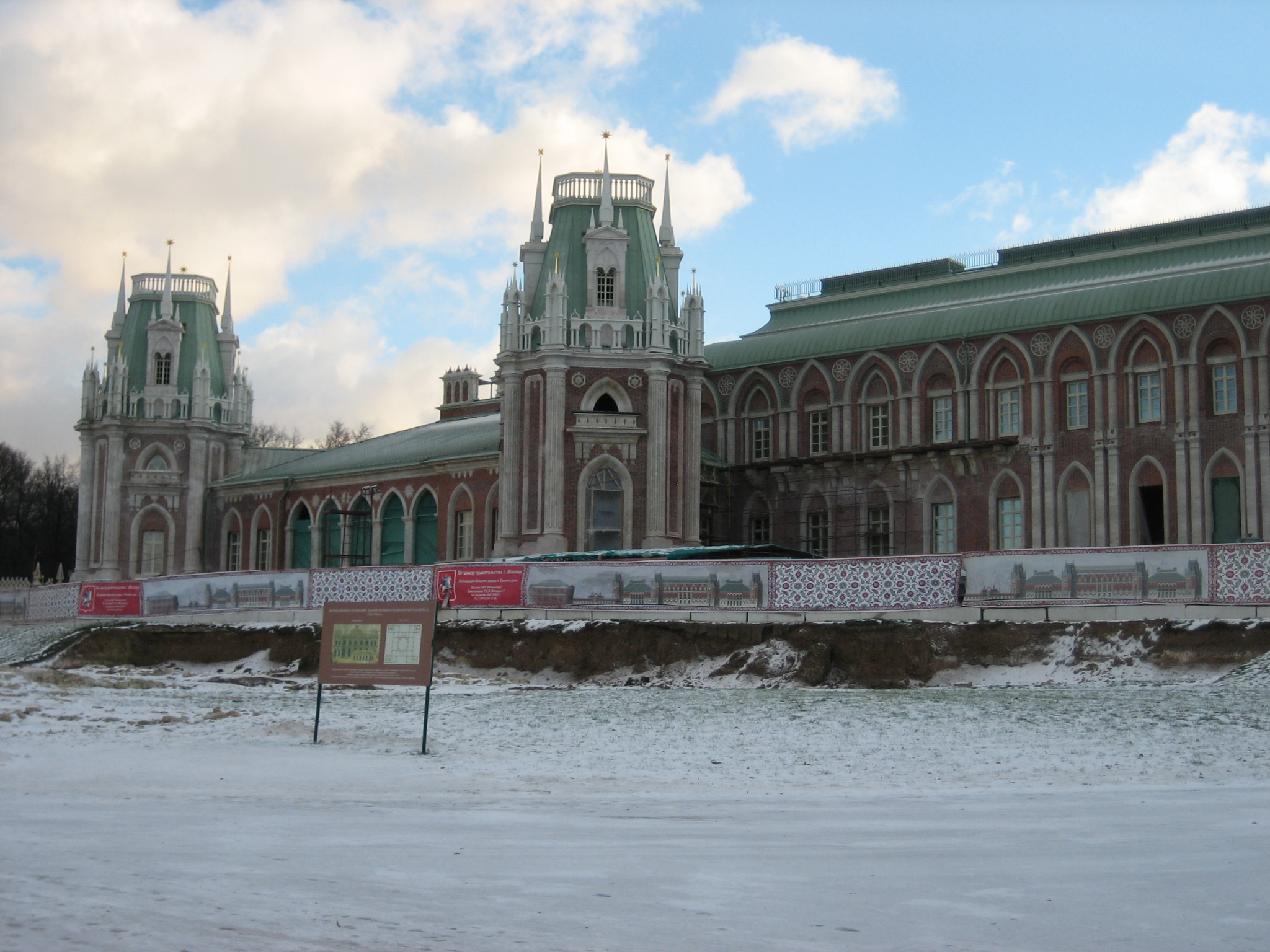 Palace at Tsaristno Park (Царицыно), Tsaristno, Moscow, Russia.